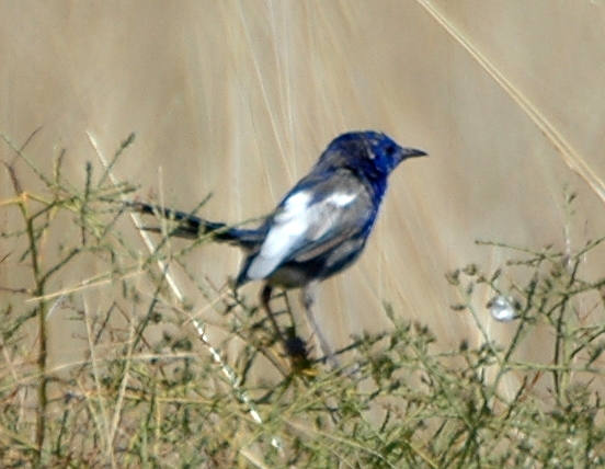 White-winged Fairy-wren (Malurus leucopterus) Coolmunda Dam, S. Queensland, Australia